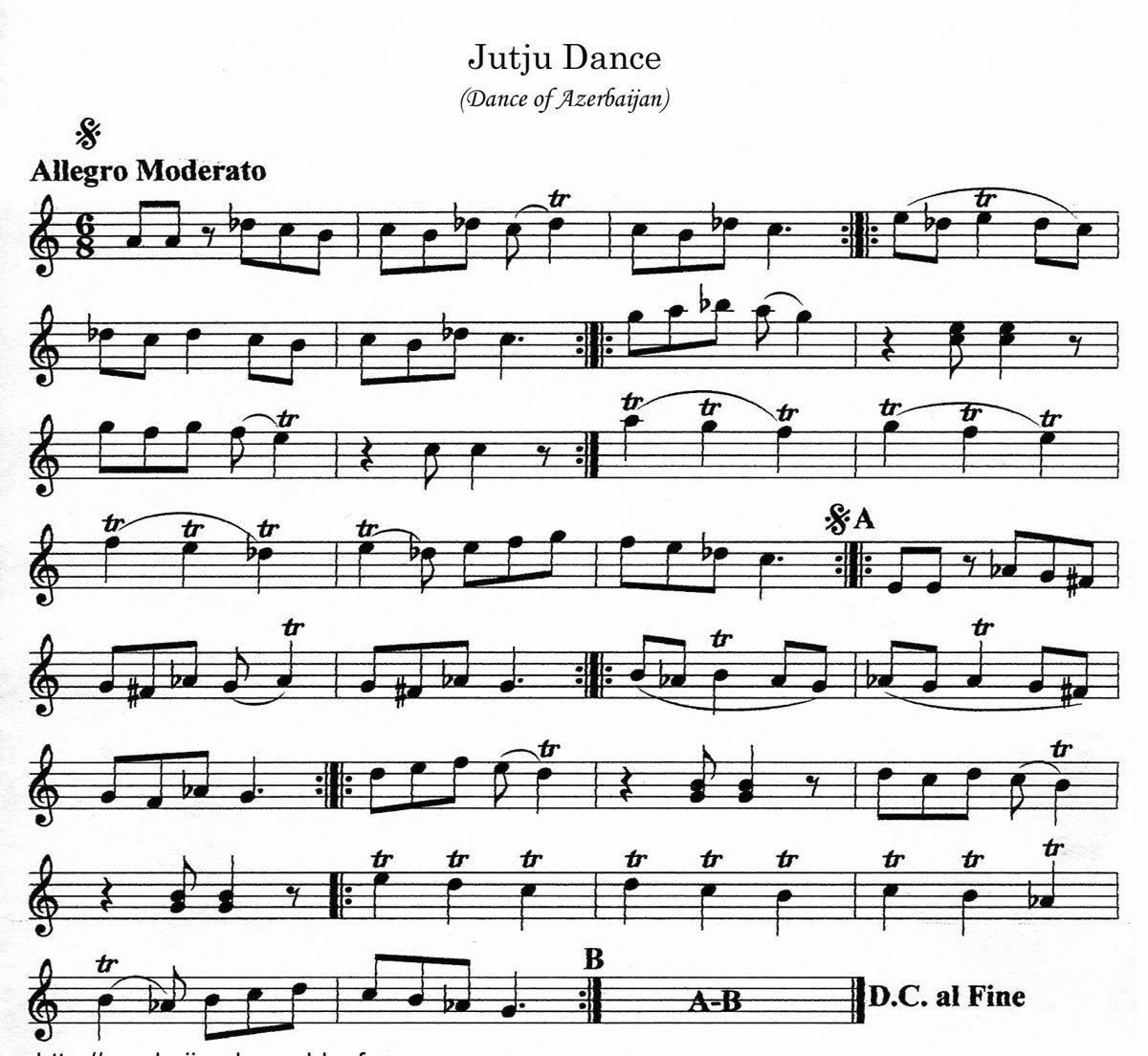 Azerbaijan national folk dance Jutju